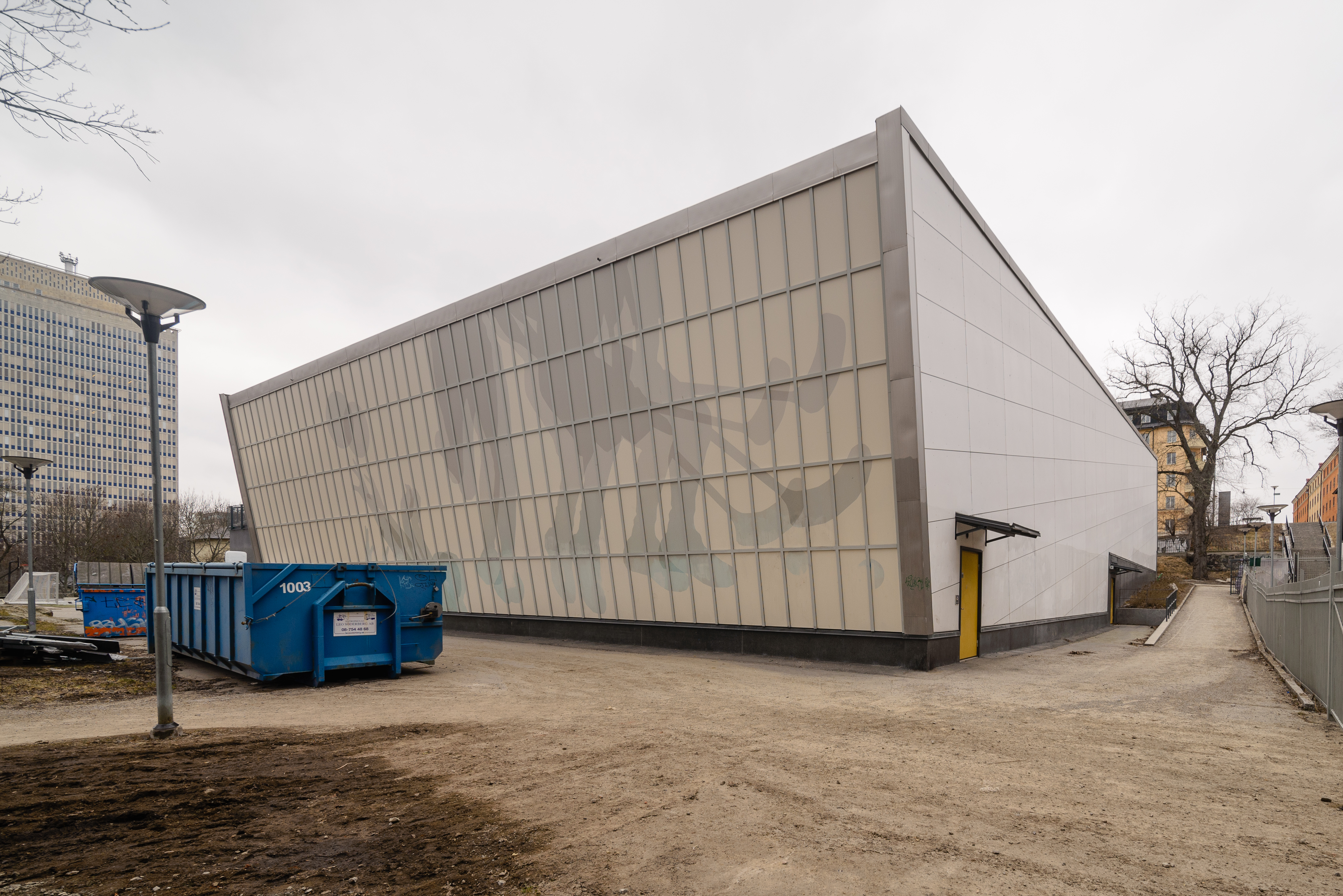 Skanstullshallen.